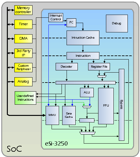 EnSilica eSi-3250 32-bit CPU core